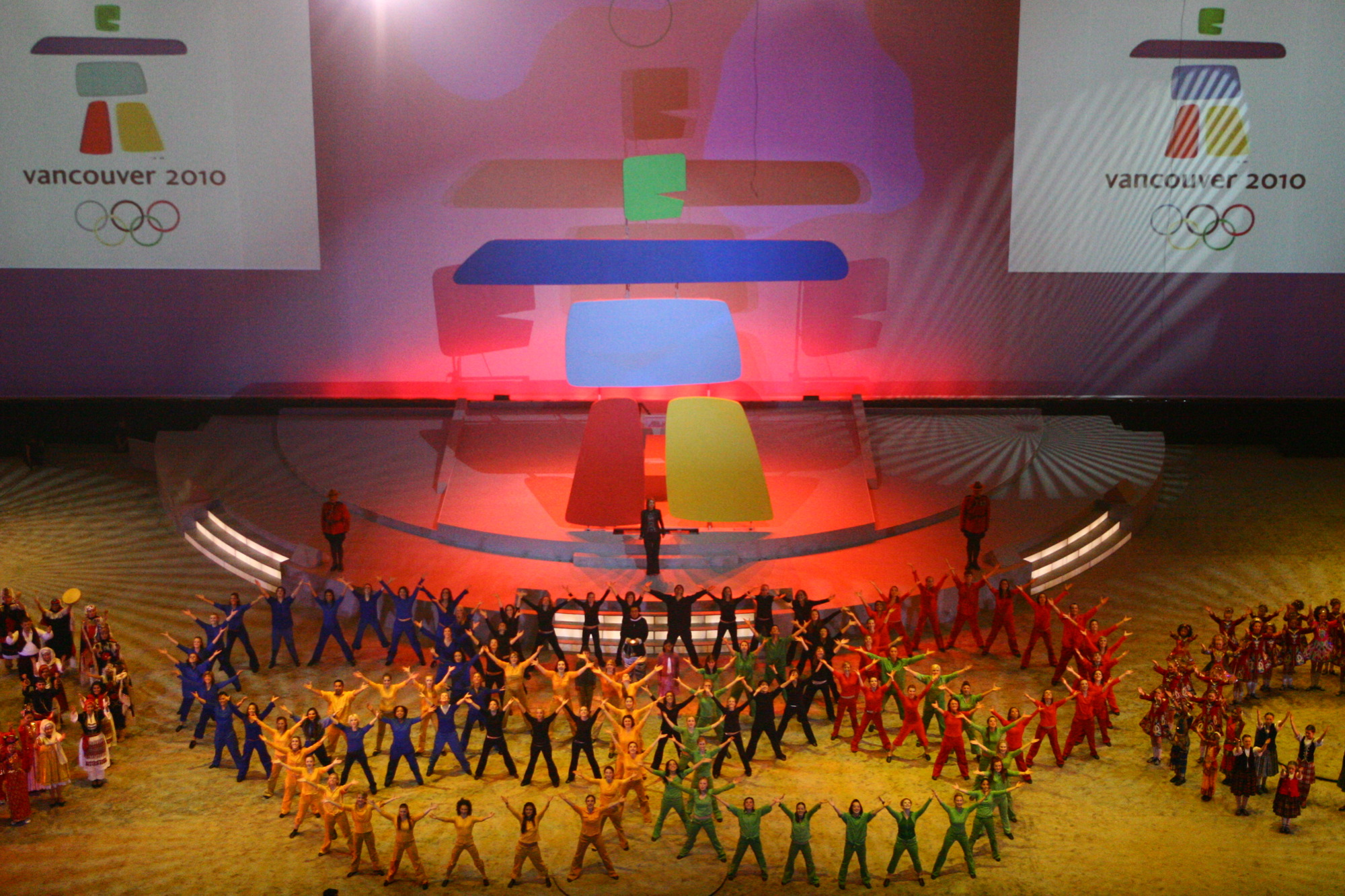 All Your Base Are Belong to Ilanaaq Imagine 2010 - Canada's Olympic journey begins, unveiling ceremony of the Vancouver 2010 Olympic Winter Games emblem (Ilanaaq the Inukshuk), April 23, 2005